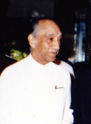 Photograph of first executive president of Sri Lanka,Junius Richard Jayawardana (1906-1996)